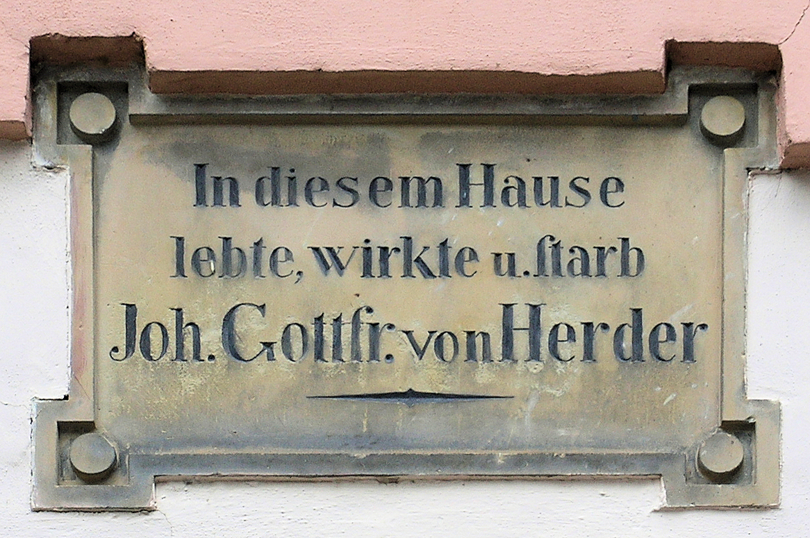 Memorial plaque, Johann Gottfried Herder, Herderplatz 7, Weimar, Germany Koordinate:52°58′53″N 11°19′44″E / 52.98139°N 11.32889°E